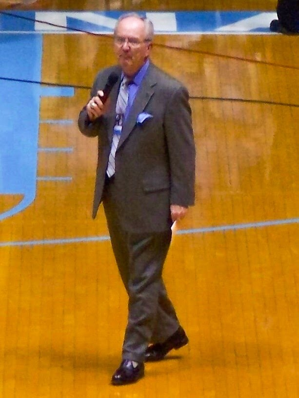 Closeup of Woody Durham walking to center court in the Dean Smith Center during halftime of the February 10, 2007 University of North Carolina Tar Heels men's basketball game against Wake Forest. Durham was about to announce a reunion of the 1957 and 1982 NCAA men's basketball tournament championship teams.